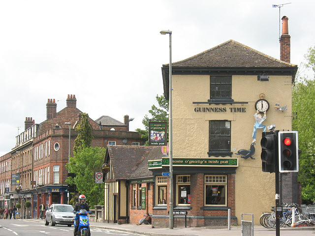 Rosie O'Grady's - the last day This Irish-themed pub in Park End Street, Oxford was holding a closing-down sale. Its last day of opening was 16 May.